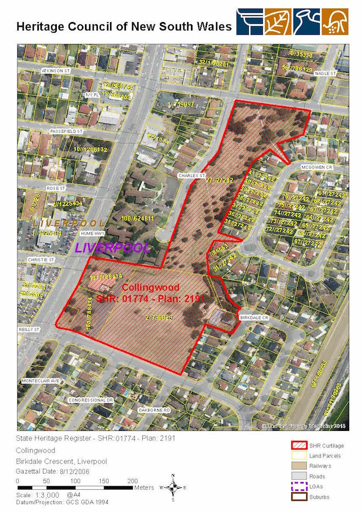 Collingwood, Liverpool: SHR Plan 2191